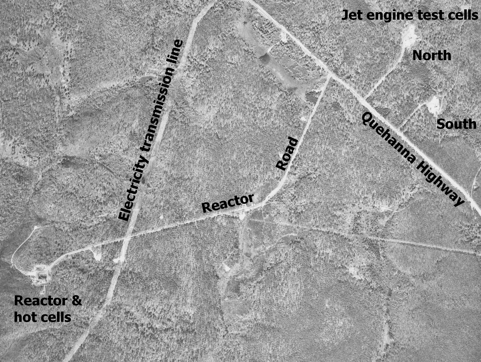 Aerial photo of Quehanna Wild Area and the surrounding Moshannon and Elk State Forests in Clearfield, ELk, and Cameron Counties, Pennsylvania in the United States. North is up. The Quehanna Highway crosses diagonally from top left to the middle of the right side. Three roads leave Quehanna Highway in the right half of the picture. They are, from left to right: 1) Reactor Road, which curves southwest to the nuclear reactor building. 2) and 3) Short roads running north to bunkers for testing jet engines - the westernmost and northernmost of these was the center of the 16-sided polygon controlled by Curtiss-Wright Corp. Both bunkers are now in Wykoff Run Natural Area. A power line clear cut zig-zags from top to bottom, crossing Reactor Road and the highway.